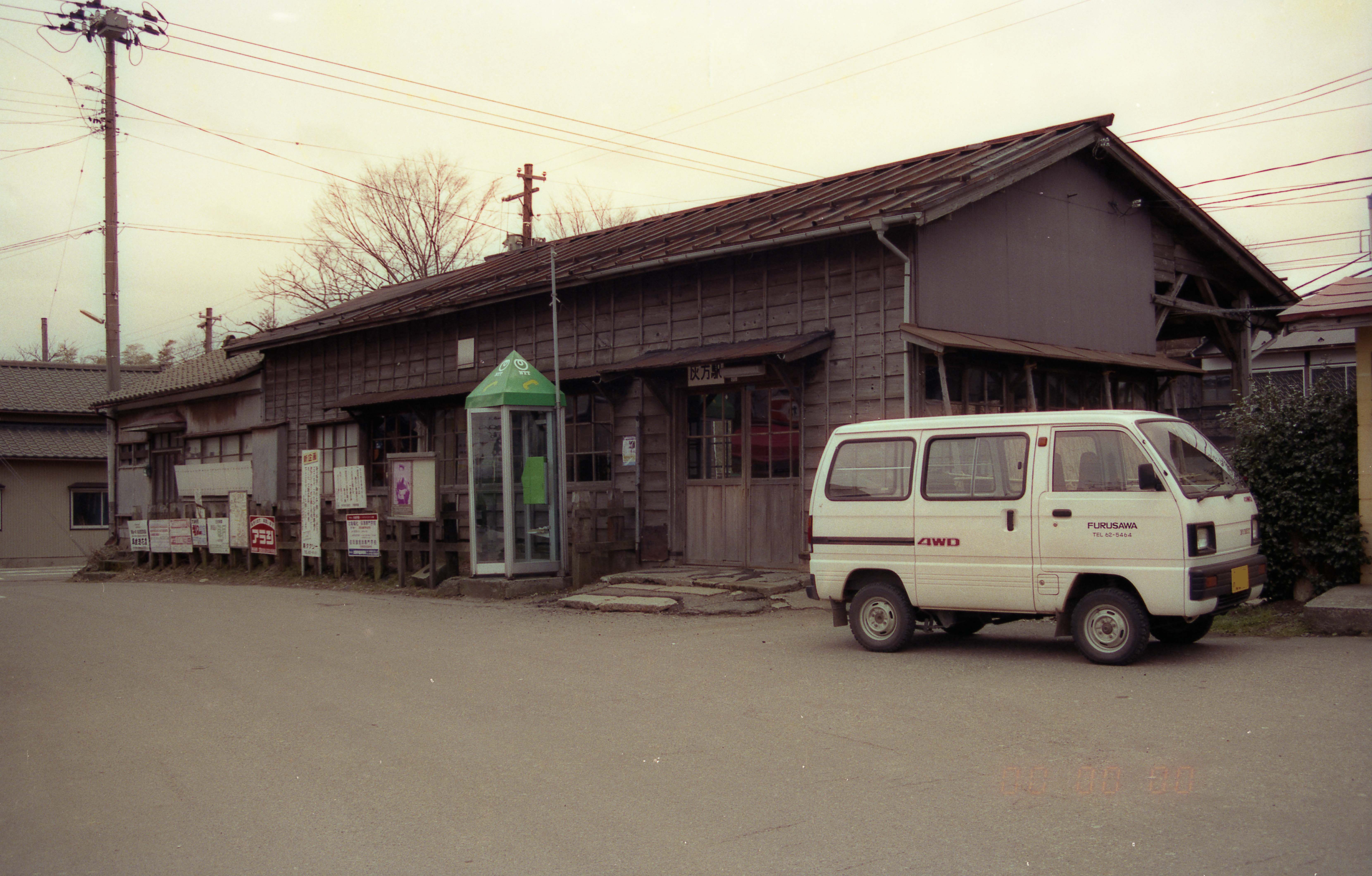 The building of Haikata Station, Niigata Kotsu Railway (before it was abolished)